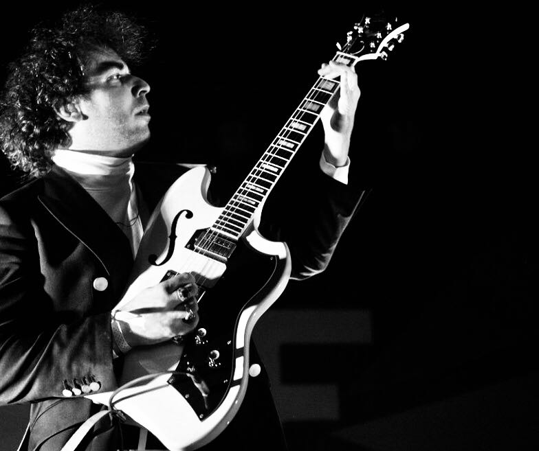 Yonatan Gat performing in FME Festival in Quebec in 2018